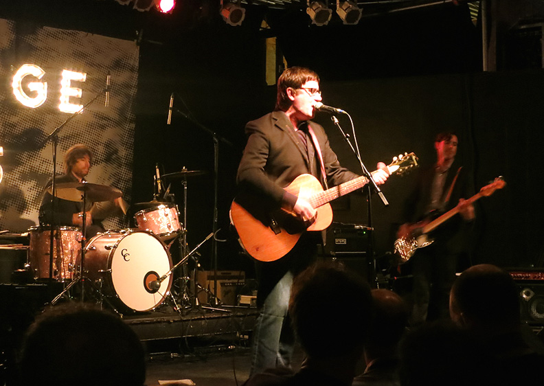 The Mountain Goats at the Cat's Cradle on the third night of the Merge25 anniversary fest. Friday, July 25th, 2014.